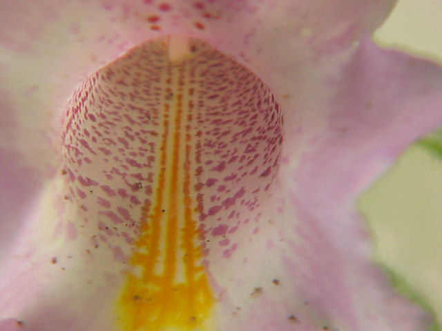 Species: Proboscidea louisianica Family: Martyniaceae Image No. 1